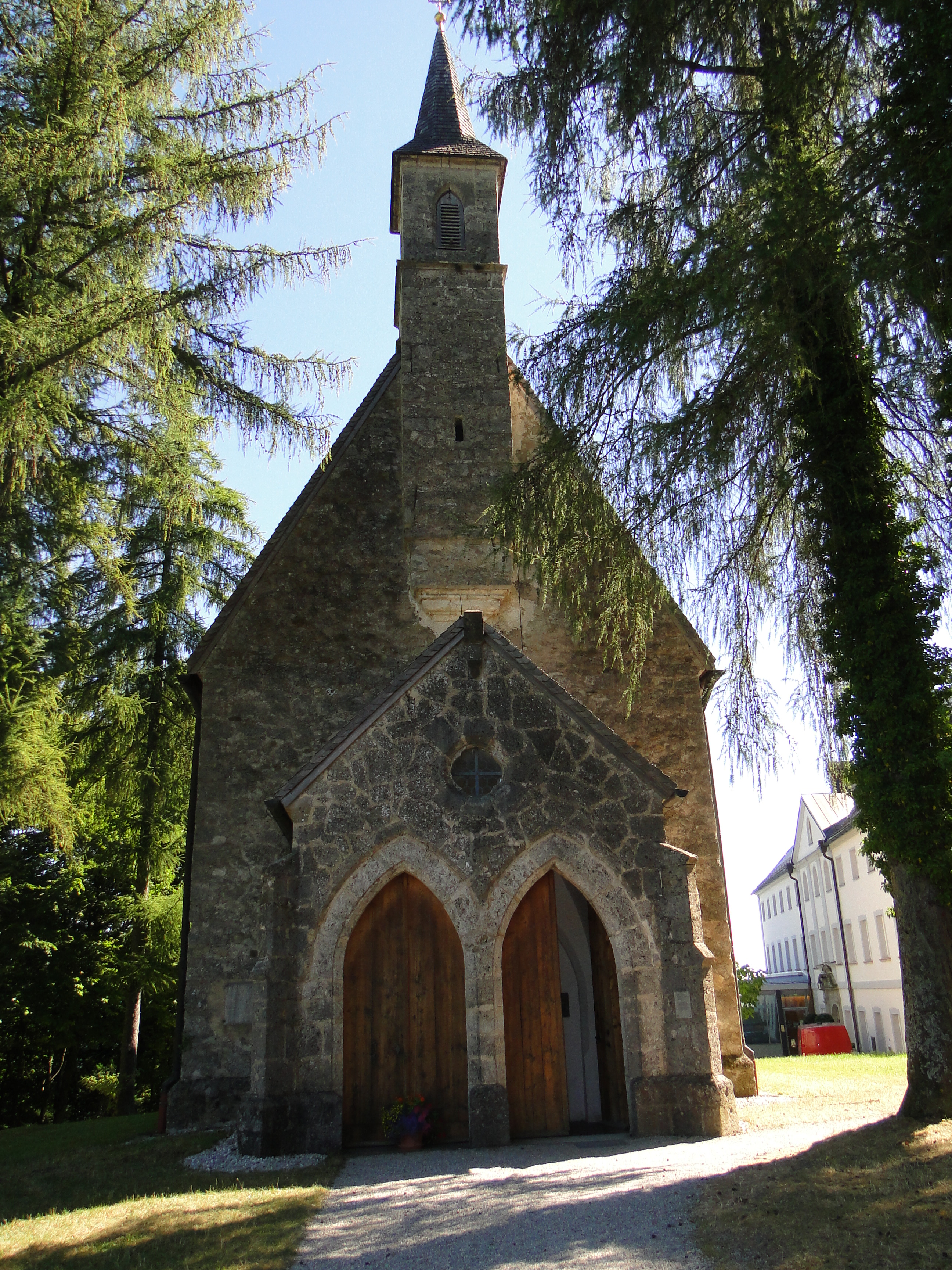 Ex Parrish church of St. Mary - Herreninsel (Bavaria - Germany)